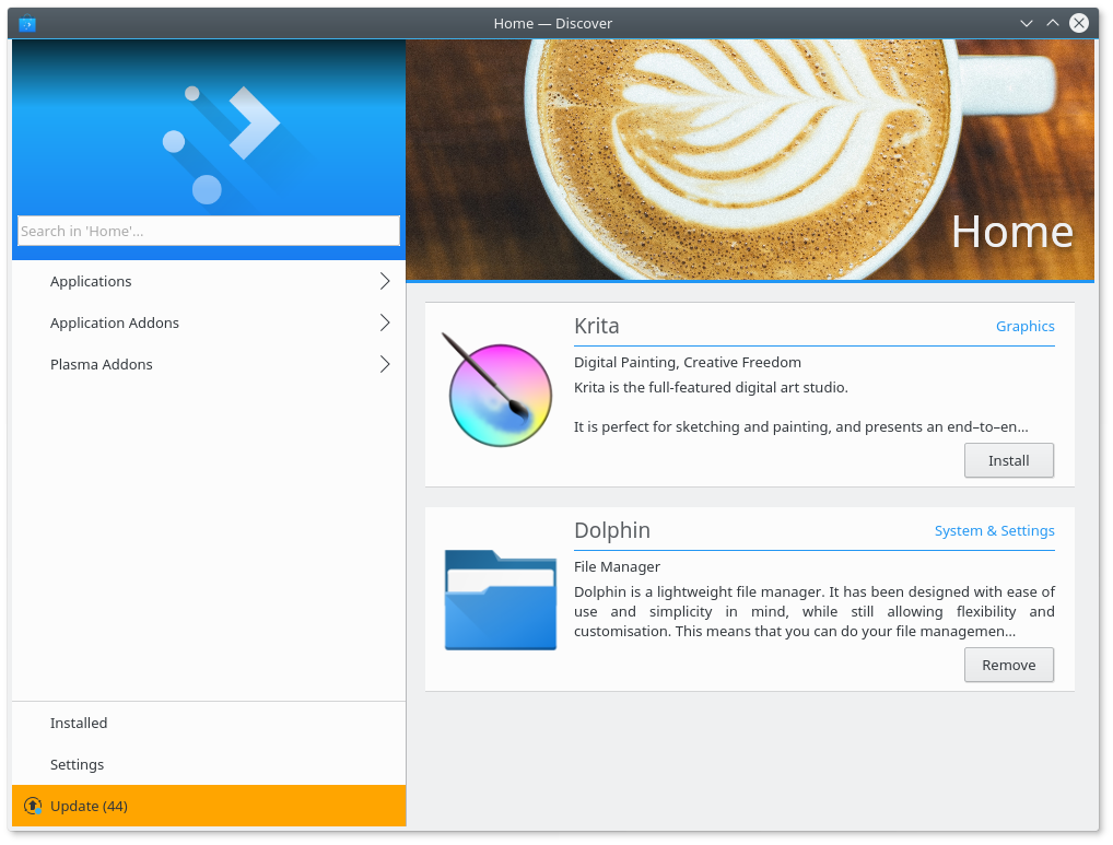 Discover software center